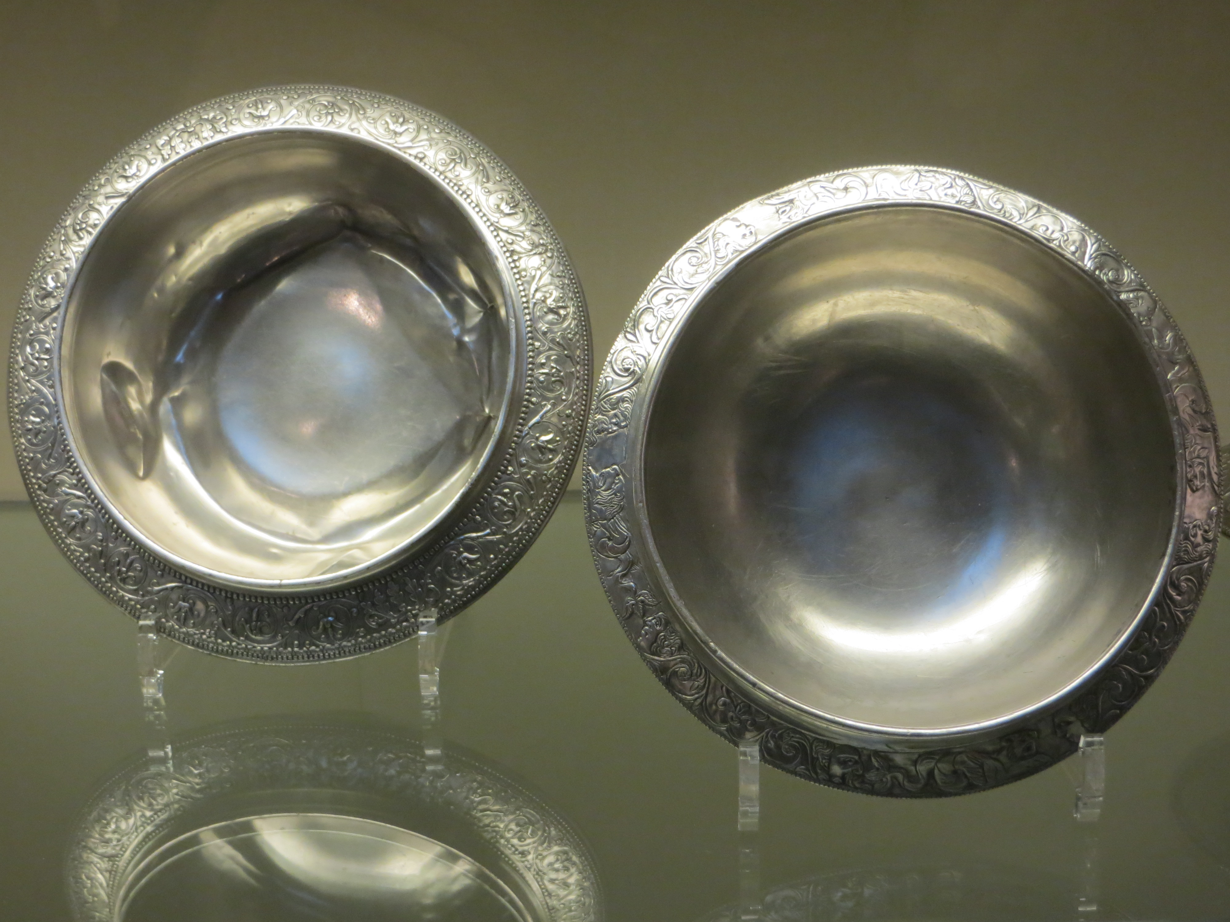 Chaourse Treasure in the British Museum